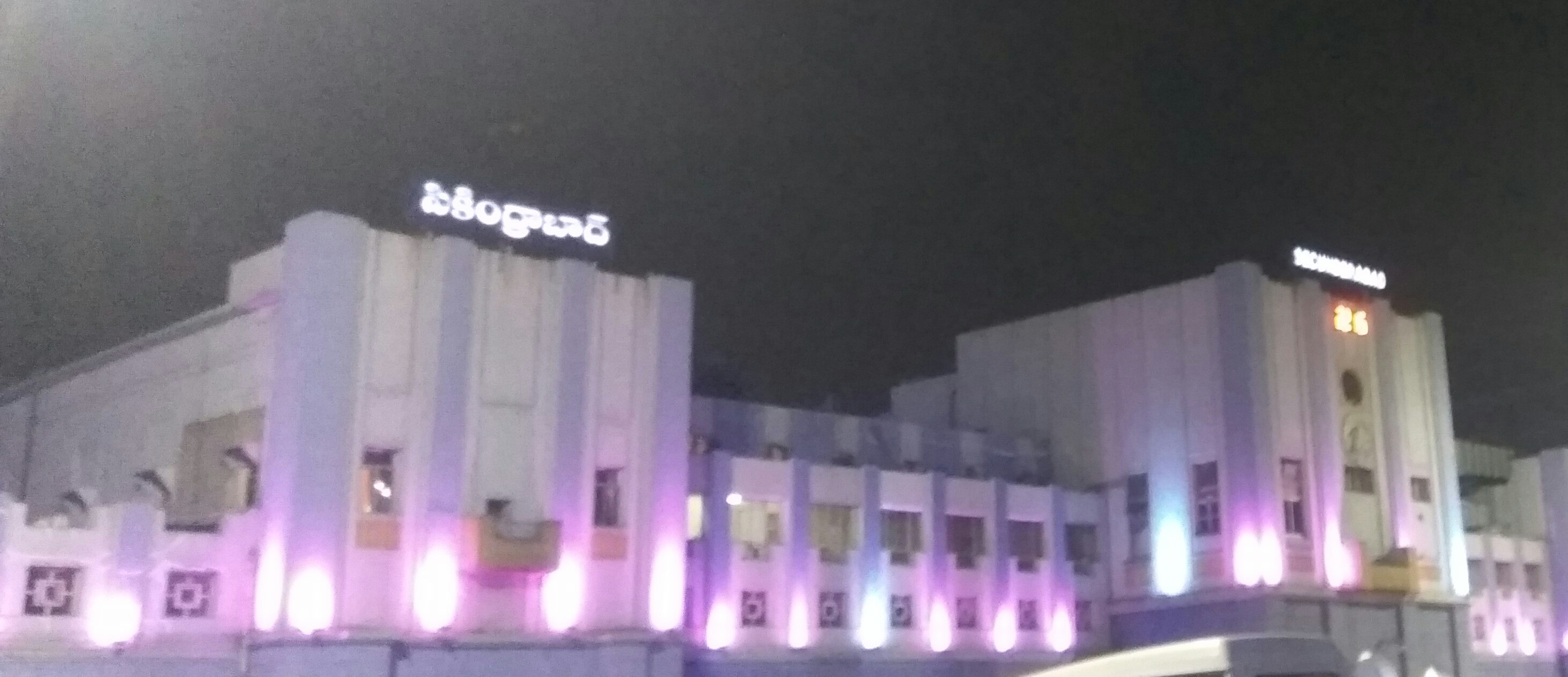 Secunderabad Railway station during wee hours